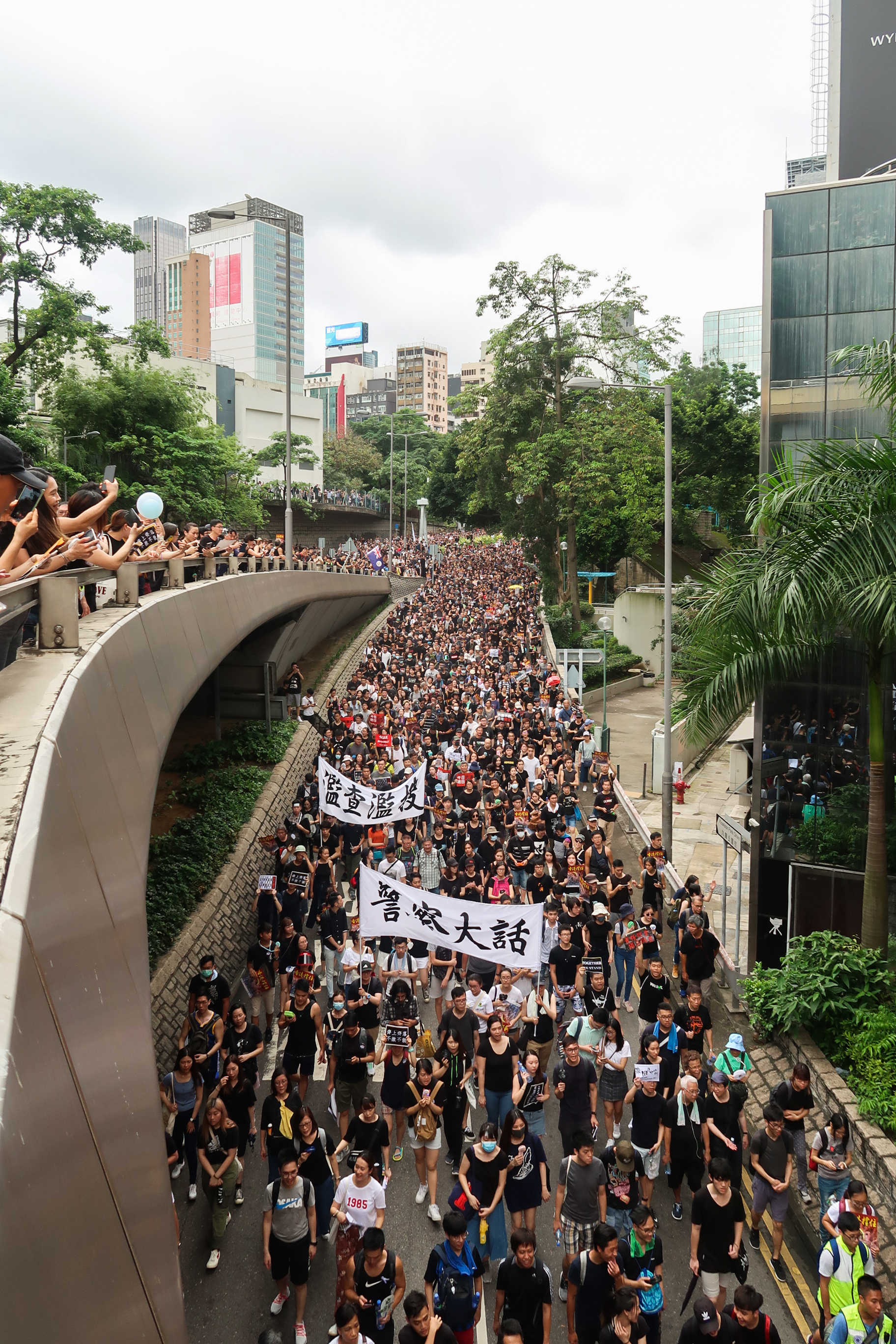 Protesters walk Kowloon Park Drive to Canton Road